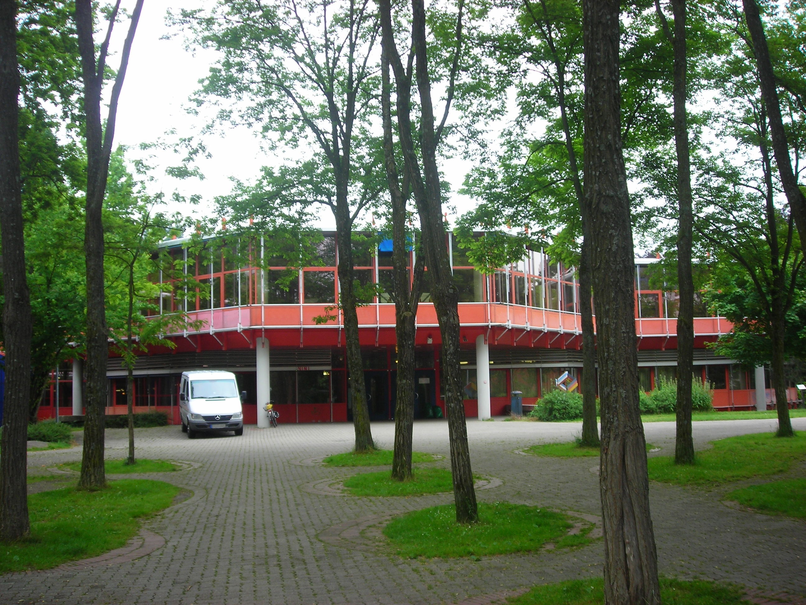 The DFG Freiburg